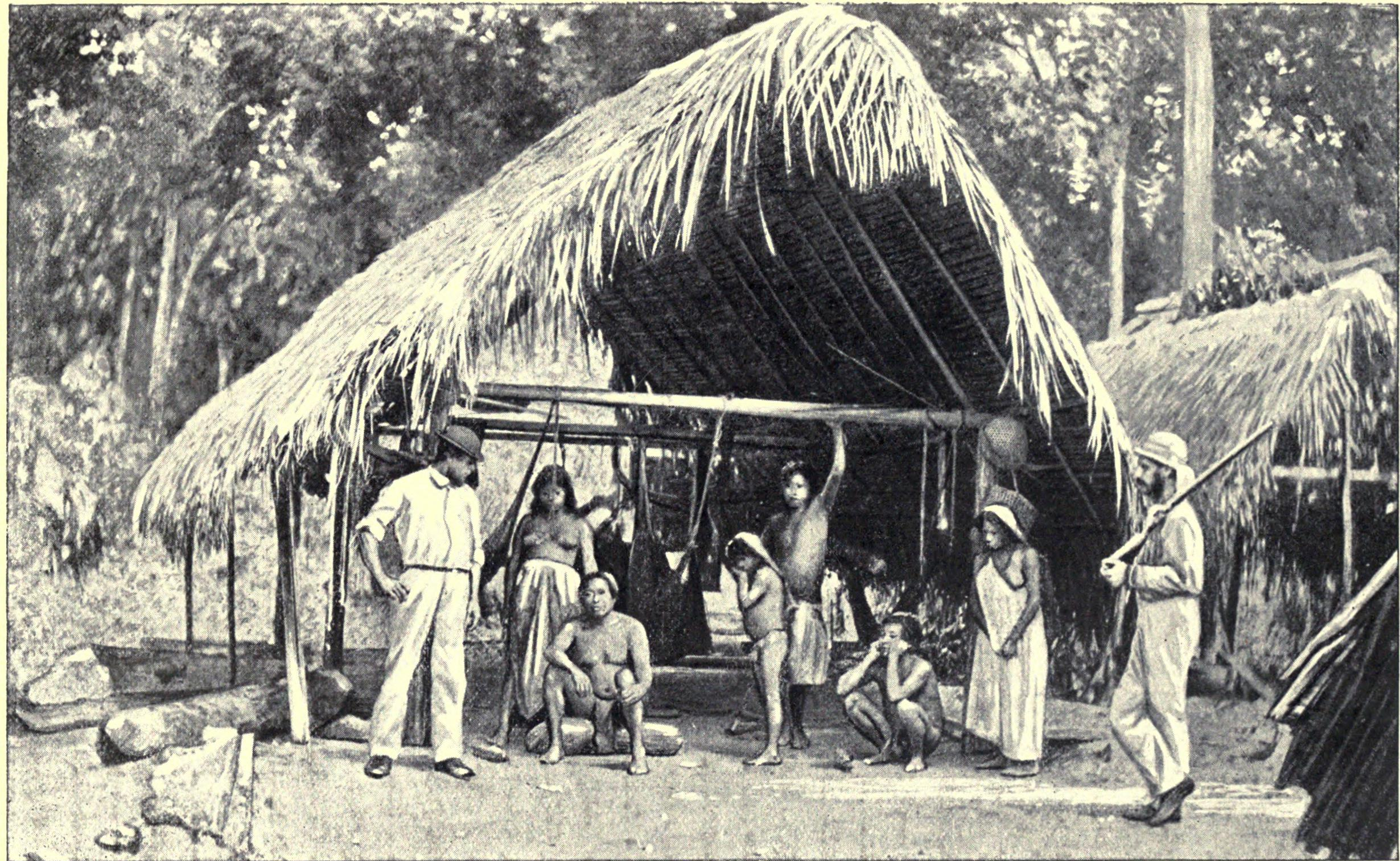 Visit to Chief Canimapo in British Guiana. Shown is Charles Couchman (standing far left) next to Canimapo (seated), and William Des Vœux (standing far right).